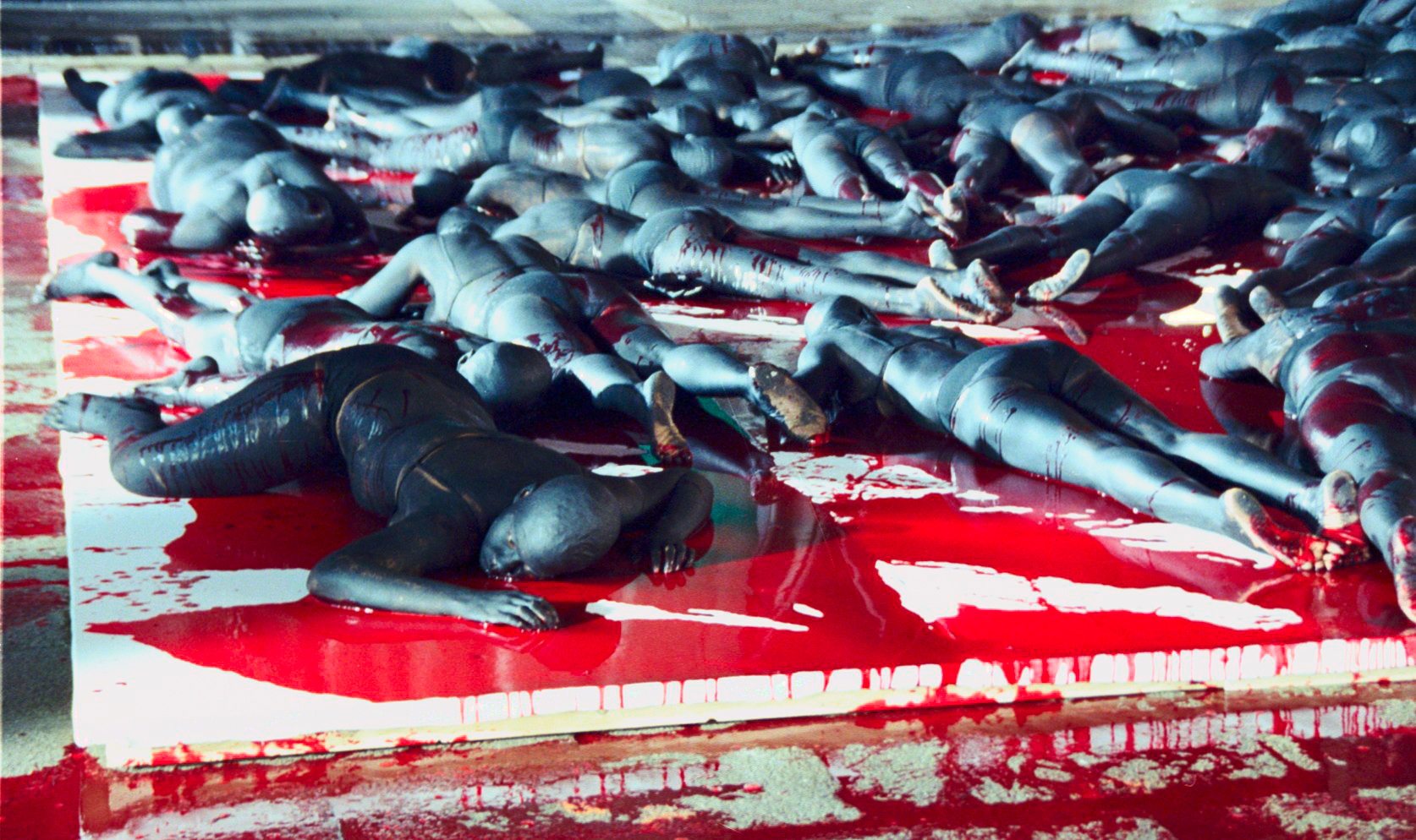 (Photography from Laura e Fulvio on Flickr: Adjusted lighting in original image. Licensed under Creative Commons Attribution Generic (CC BY)